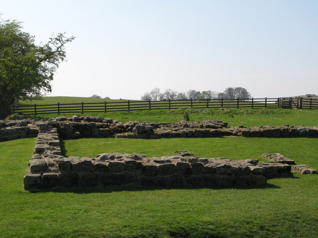 Milecastle 49 (Harrows Scar) (4), near to Gilsland, Cumbria, Great Britain.